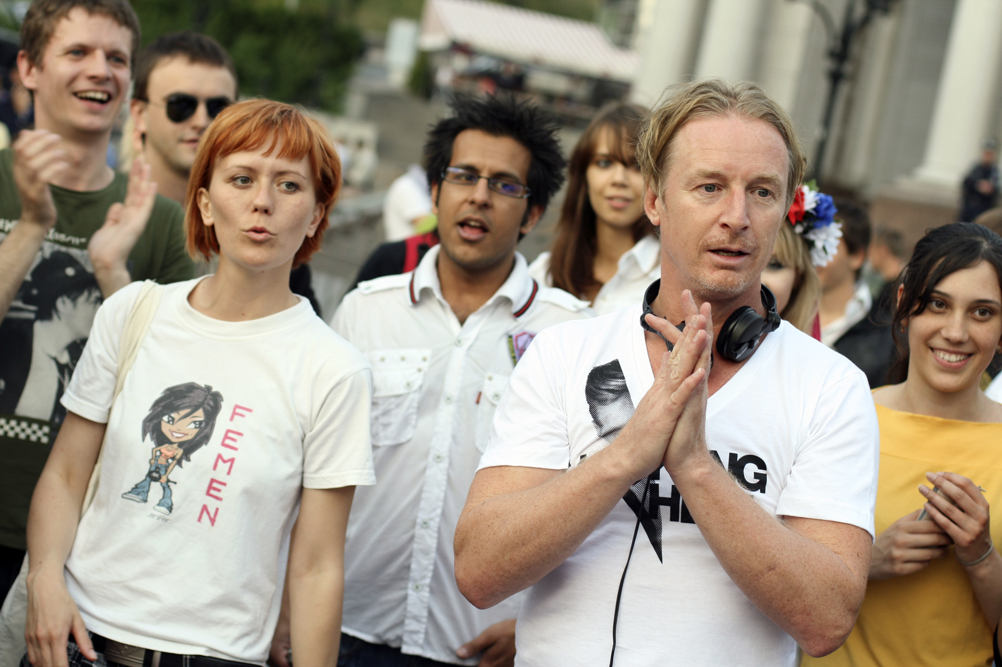 Anna Hutsol and DJ Hell, during protest 'Ukraine is not a Brothel' against sex tourism and prostitution, Kiev, Ukraine, 23 May 2009.